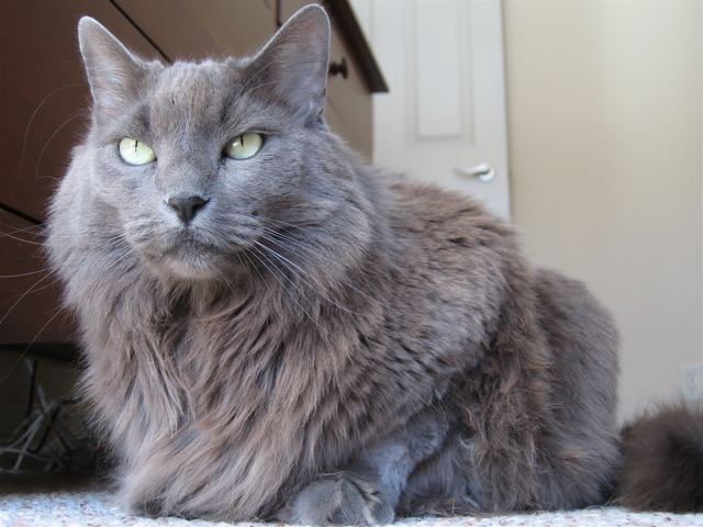 Male Nebelung cat, "Bob," born in Boulder, Colorado, USA. Photo made by Maggie Osterberg, released to Wikipedia under CC-BY-SA 2.5.